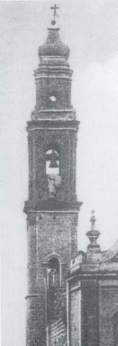 Bell tower of Noicattaro before the lightning struck. Noicattaro, Bari, Italy.